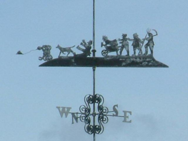 The Shapwick Monster. The celebrated weathervane at Crab Farm tells the story of the Shapwick Monster - a giant crab.